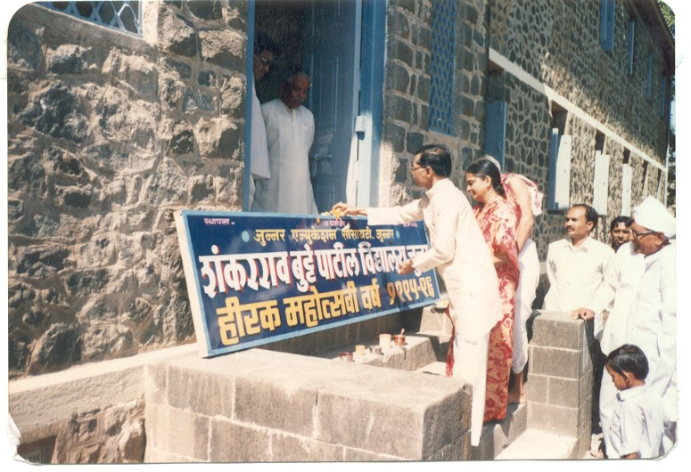 At the time of Dimond Jubilee